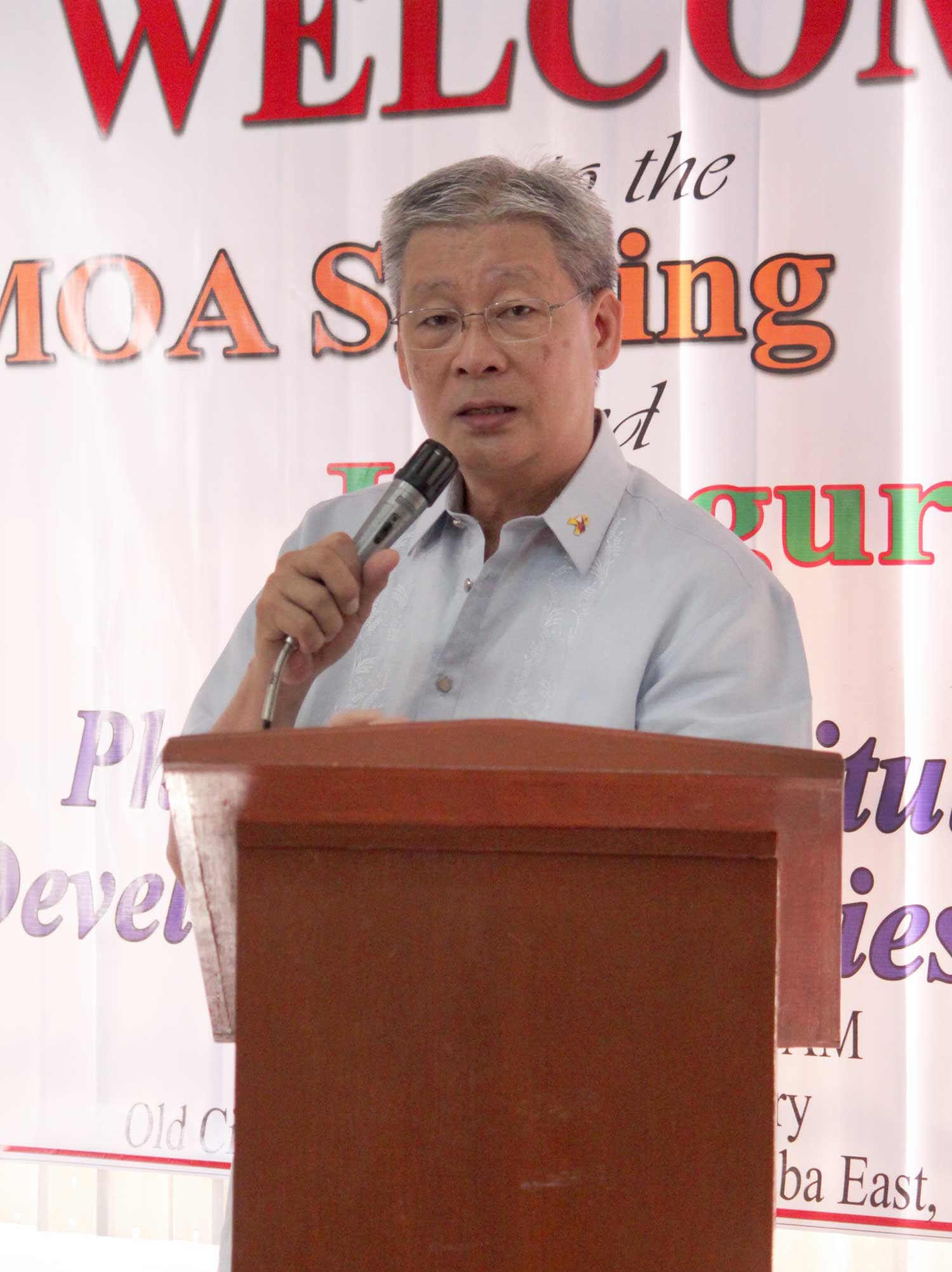 Socio-Economic Planning Secretary and National Economic and Development Authority (NEDA) Director-General Cayetano Paderanga inaugurated the 17th Philippine Institute for Development Studies Corner (PIDS) at the Calapan City College Library last July 13, 2011.